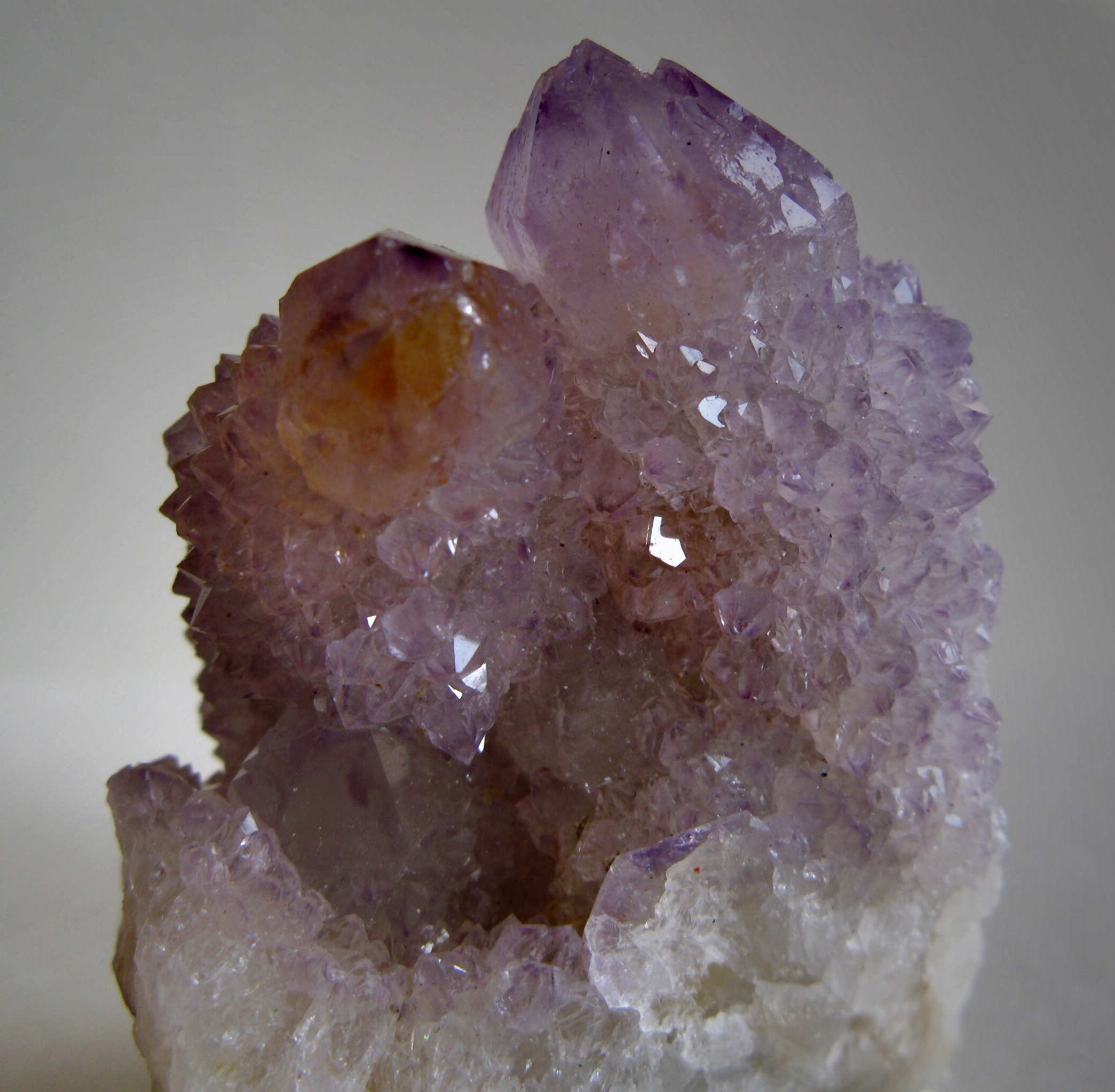 cactusamethyst from Mpumalanga, Southafrica (Size: 4,5 cm × 2,5 cm × 5,0 cm